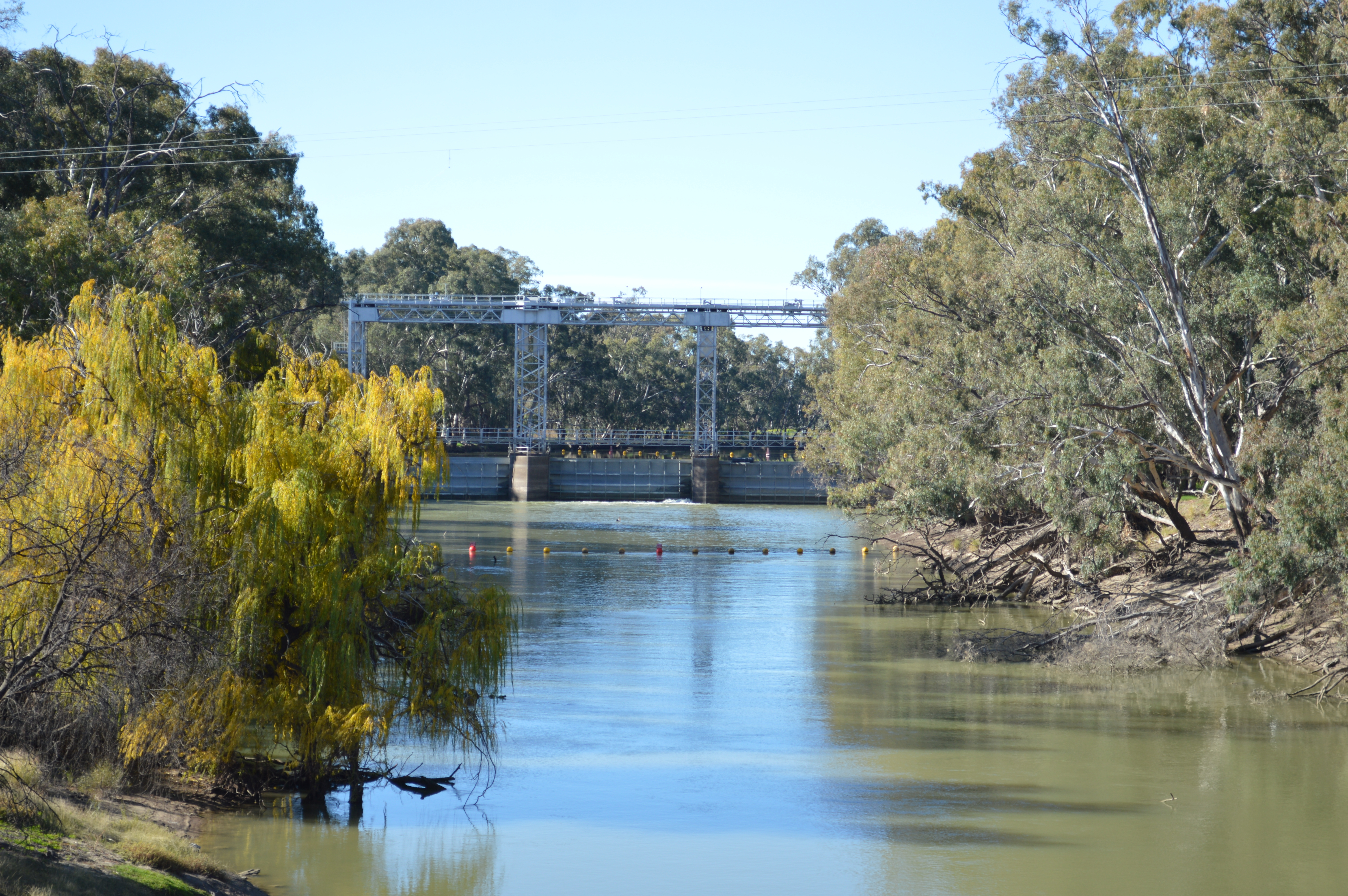 Murrumbidgee River at Maude, New South Wales. Maude Weir is in the background